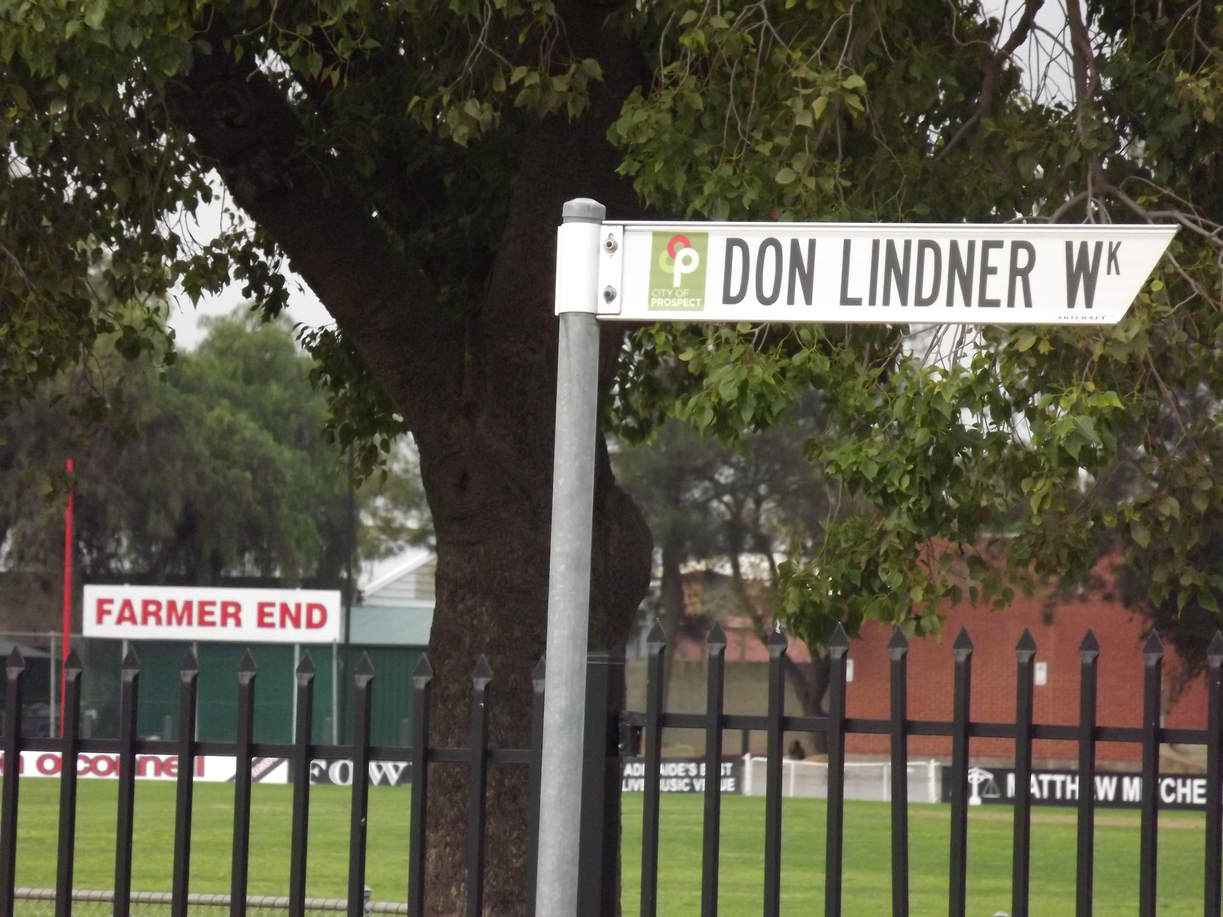 Don Lindner Walk signpost, south west of Prospect Oval – looking north east, through to the opposite end of the oval.